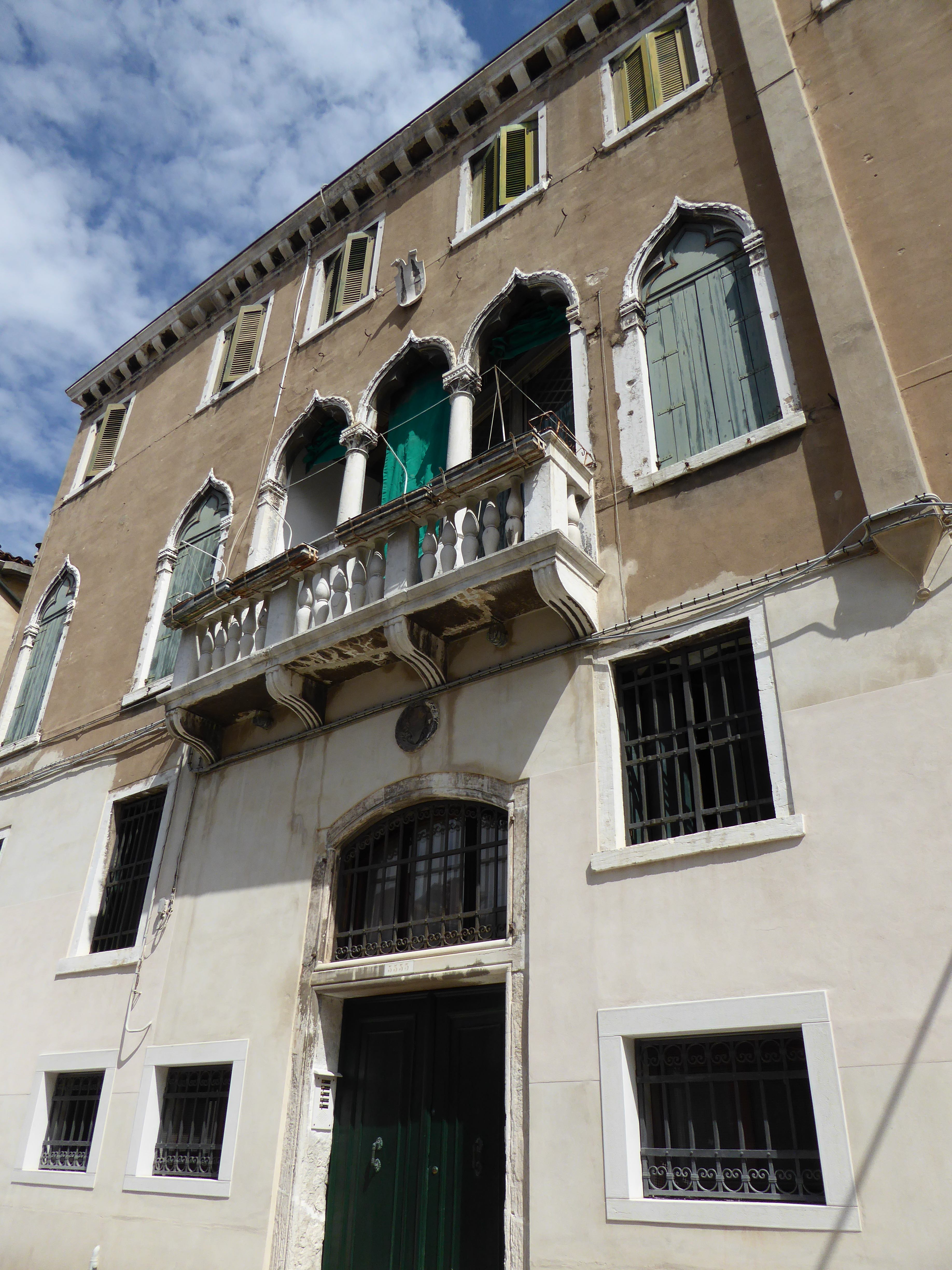 along rio della sensa